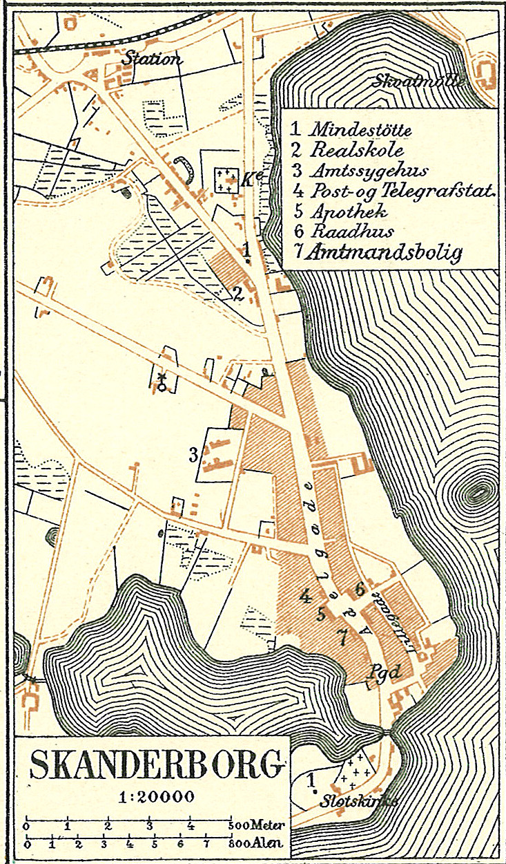 Map of Skanderborg in Denmark